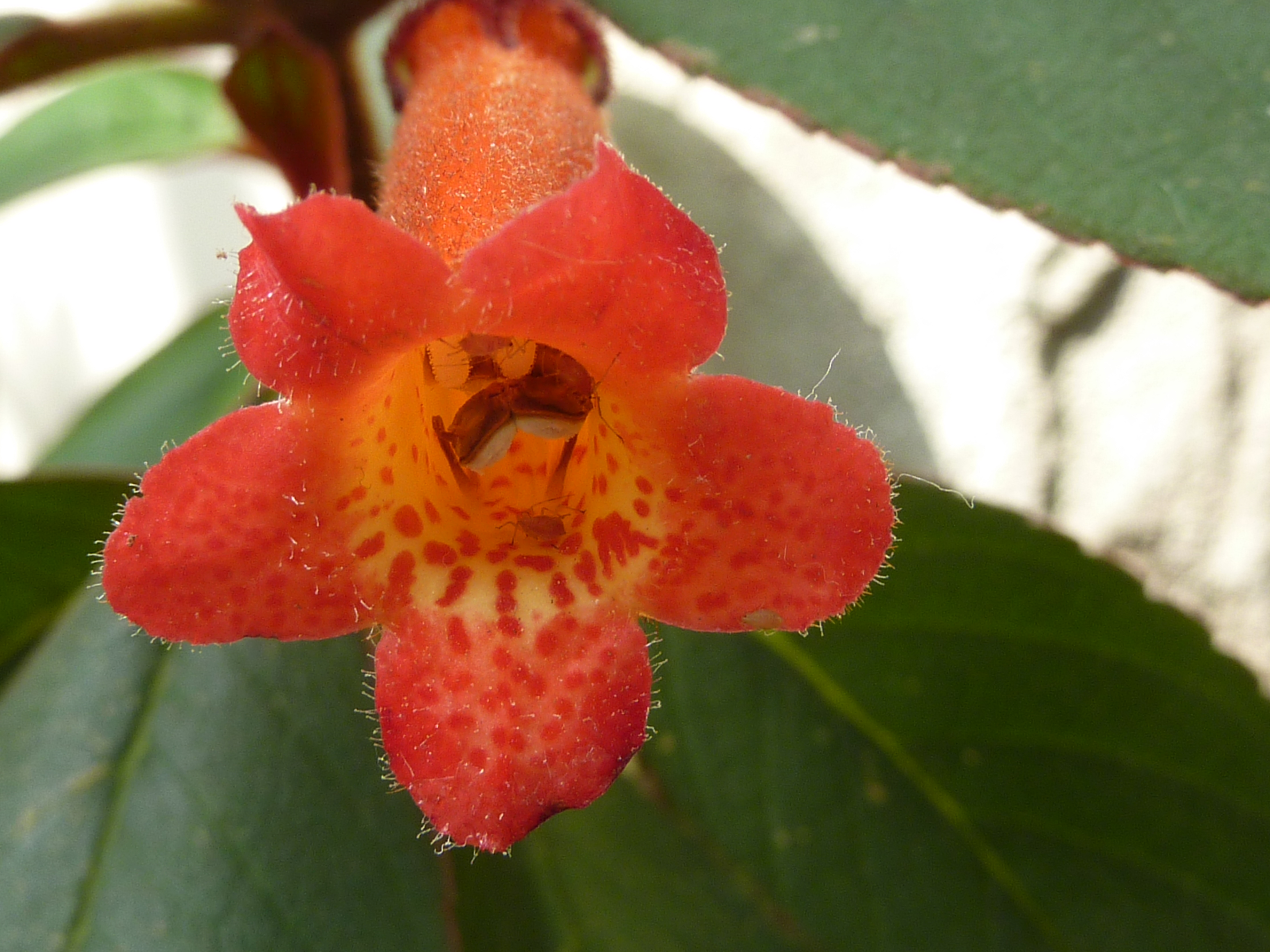 Kohleria hirsuta var. hirsuta. Taken in the Cambridge University Botanic Garden.